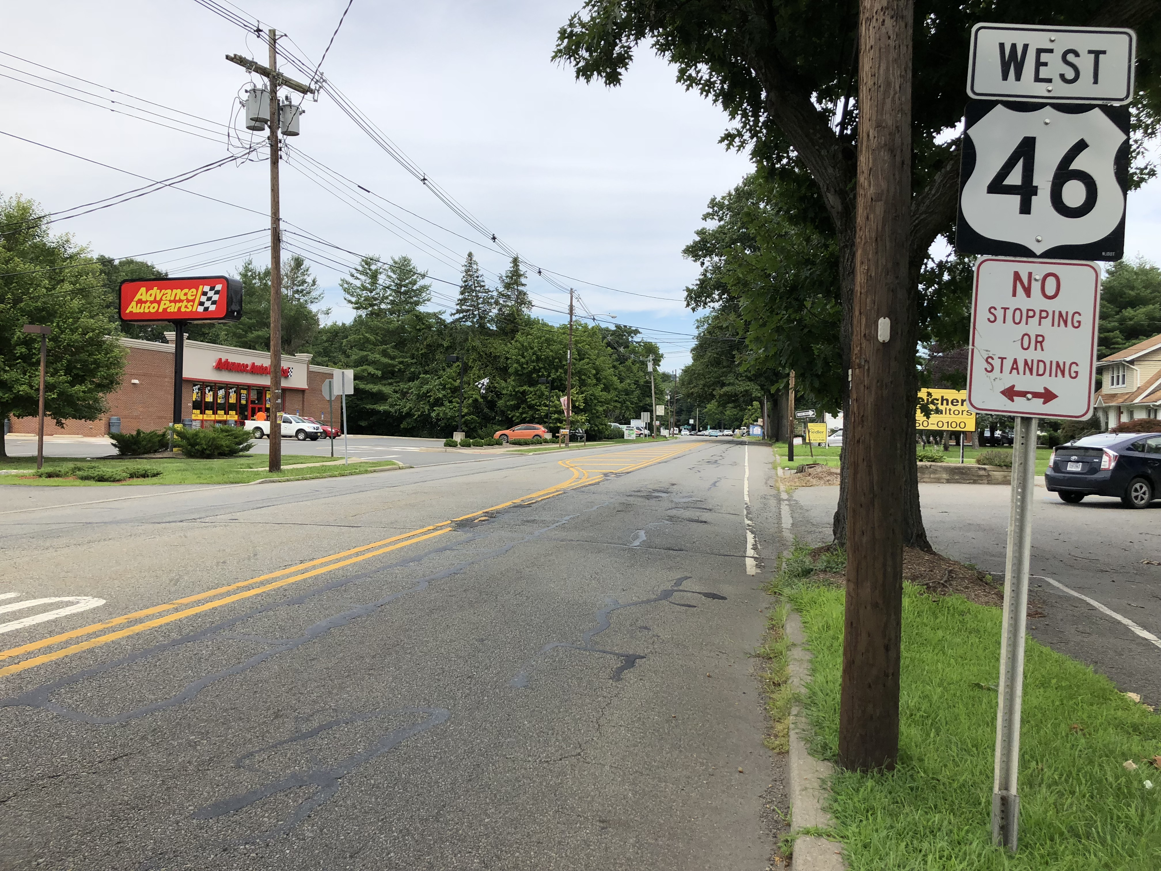 View west along U.S. Route 46 just west of East Avenue in Washington Township, Morris County, New Jersey